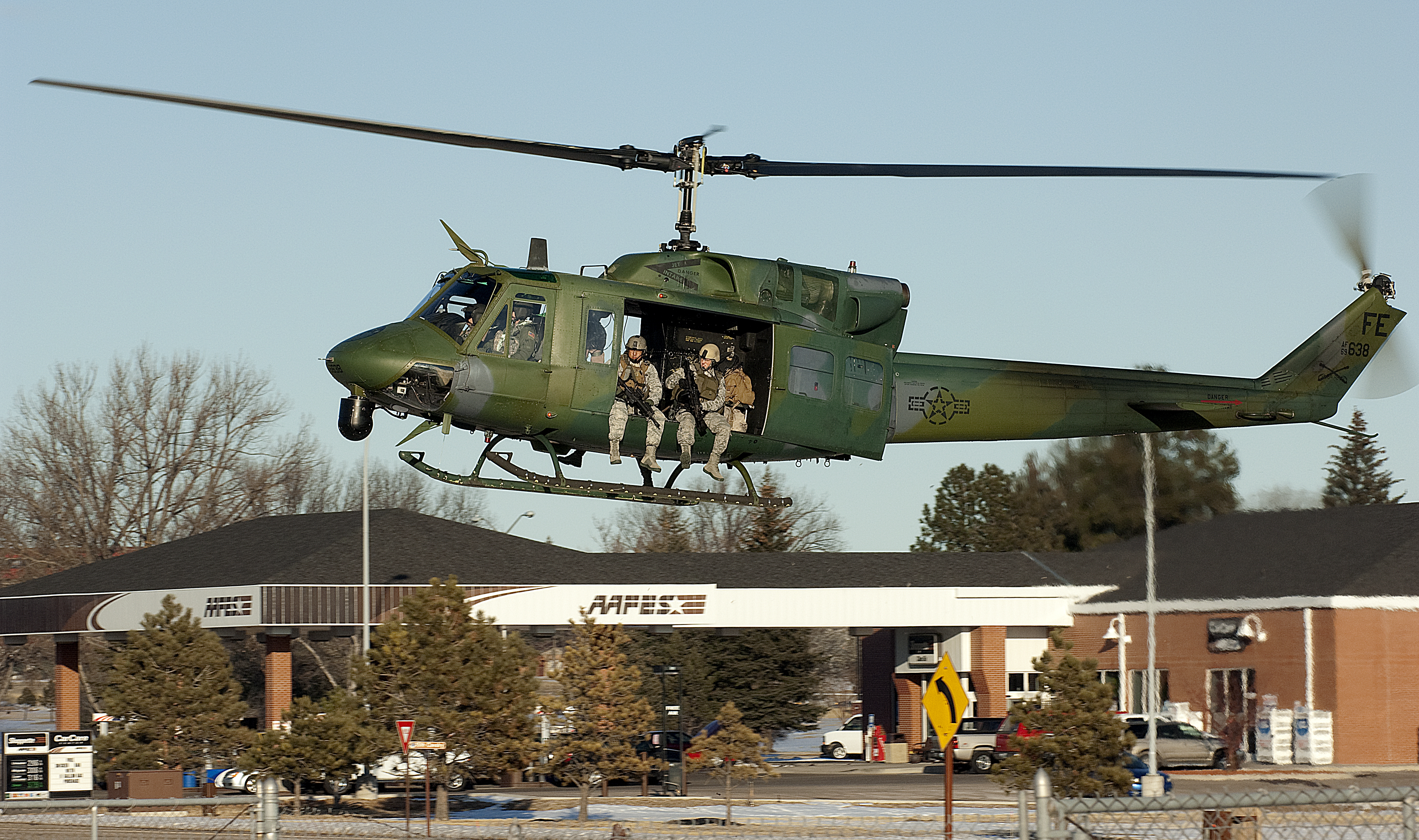 Members of the 90th Security Forces Group prepare to jump out of an UH-1N Huey helicopter, piloted by 37th Helicopter Squadron members during a recent exercise here. (U.S. Air Force photo by R.J. Oriez)